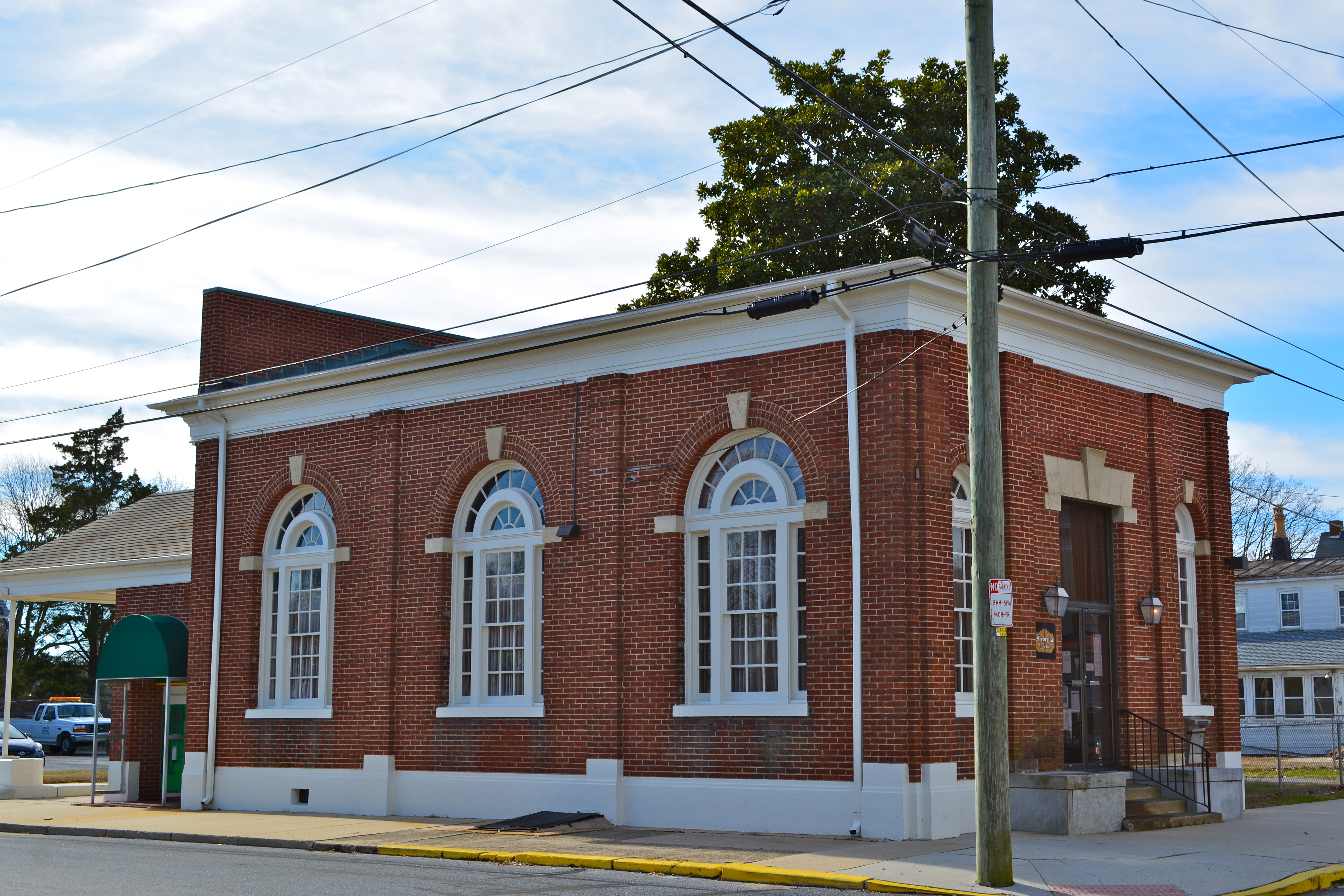 Town hall in the Frederica Historic District, listed on the NRHP on November 9, 1977. The district includes Market, Front, and David Sts. in Frederica, Kent County, Delaware